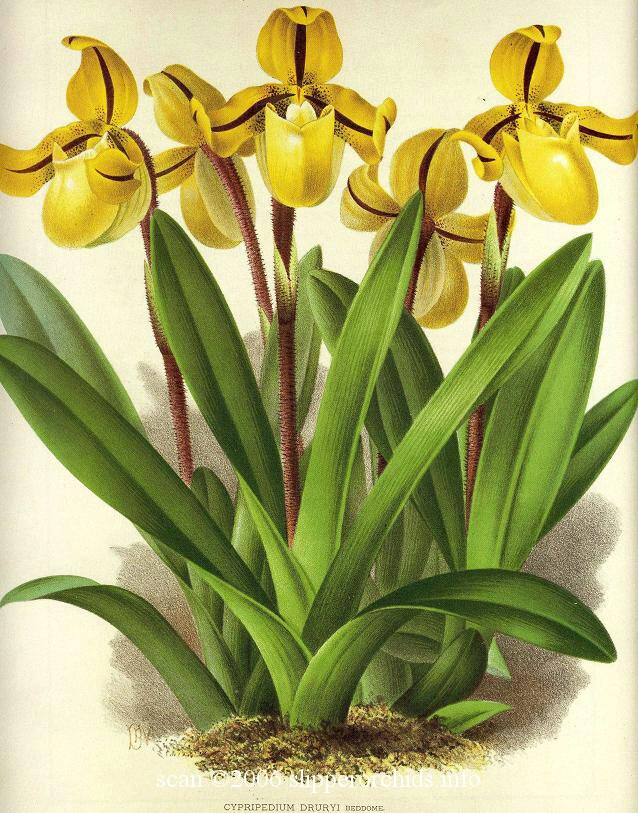 Paphiopedilum druryi